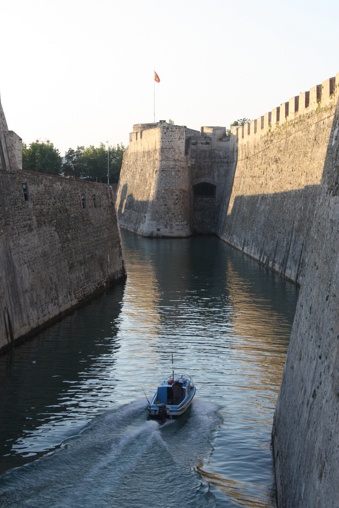 © All rights reserved